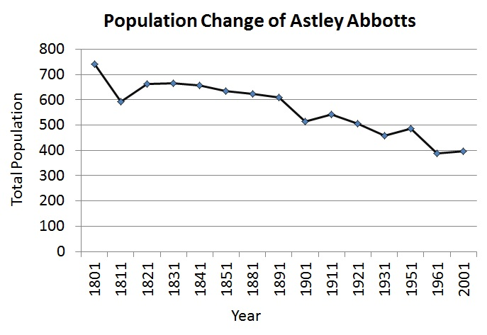 Population change. This graph shows the population change of Astley Abbotts from 1801-2001 Captioned As { }